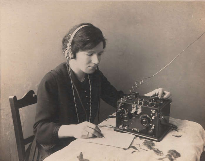 A woman, Florence Violet McKenzie, sitting at a desk listening to an early radio in 1922. Radio broadcasting, which began around the time this picture was taken, caused radio listening to explode from a high-tech hobby to a hugely popular pastime during the Roaring 20s. This is a low power set using a single triode vacuum tube to amplify the signal, indicated by the hole in the front panel, used to check whether the filament was still glowing. Small sets like this did not have enough power to drive a loudspeaker and so had to be listened to with earphones. The tuning dial was not calibrated in kHz or MHz like modern radios, so radio stations had to be found by trial and error. When a radio station was found, the number on the dial was noted down as this woman is doing, so it can be found again. The top wire goes to a long wire antenna.